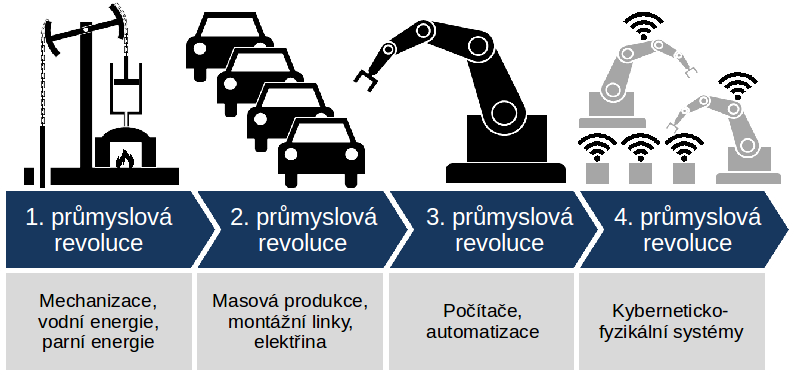 Illustration of Industry 4.0, showing the four "industrial revolutions" with a brief Czech description. See also File:Industry 4.0 NoText.png for a version without text This PNG graphic was created with LibreOffice.